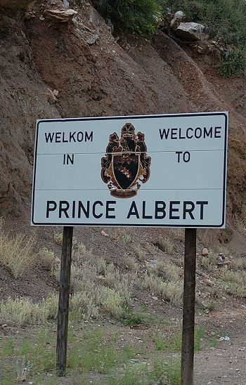 Prins Albert, Western Cape, South Africa